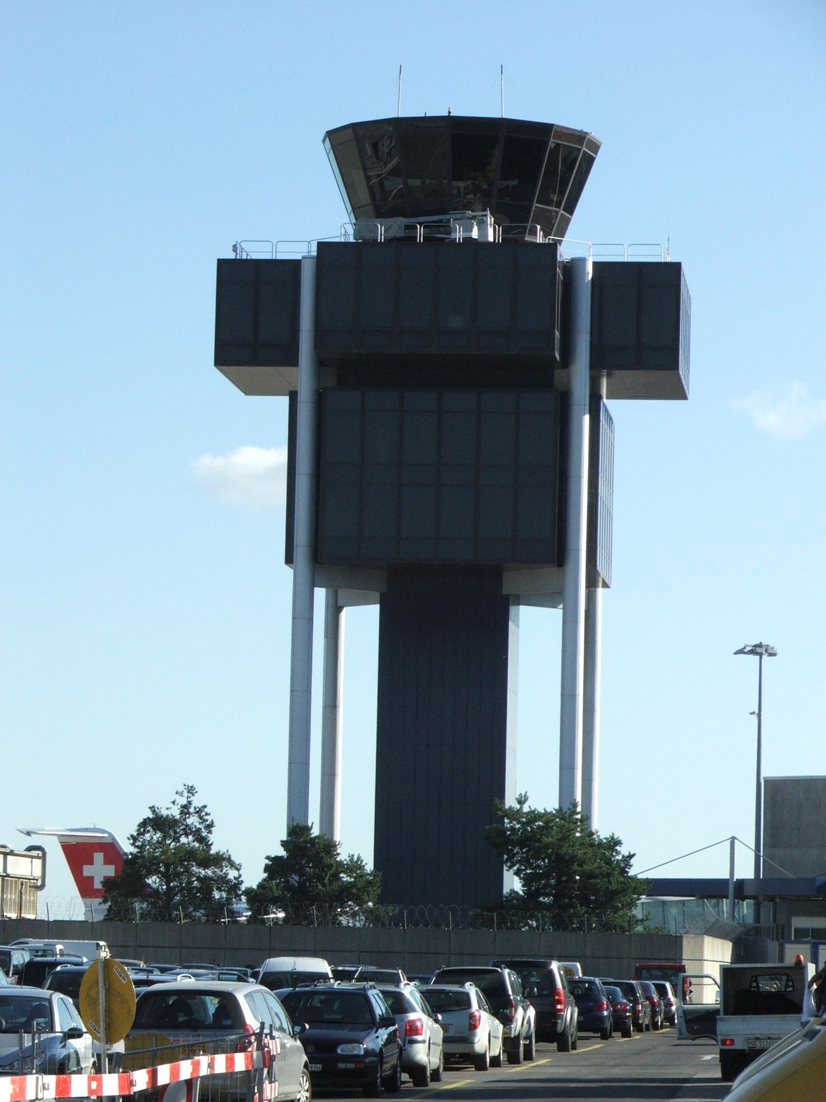 Airport Tower of Geneva Cointrin airport, Switzerland